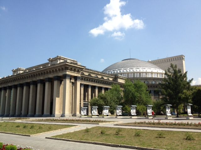 View of Theater with Dome